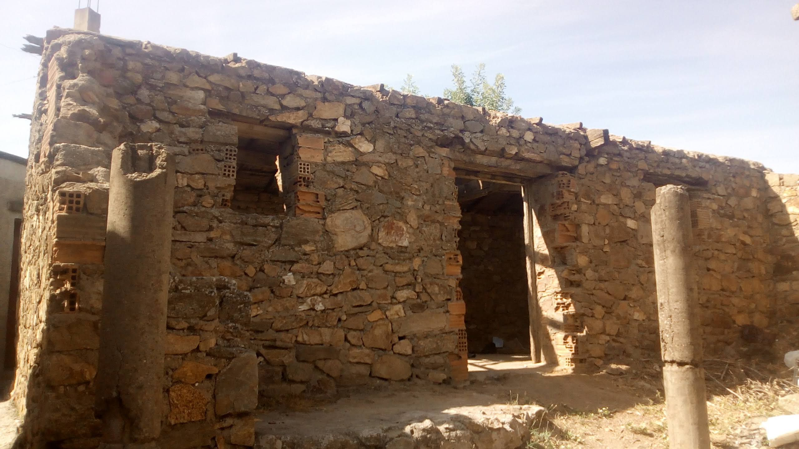 Social company